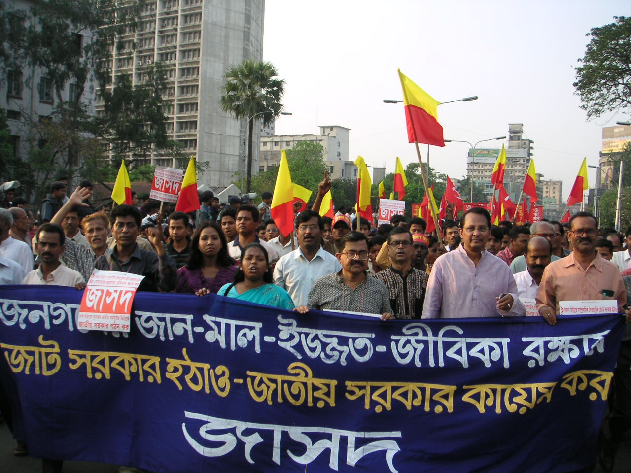 JSD at a united opposition rally in Dhaka. Present is party leader Inu. Photo: Soman